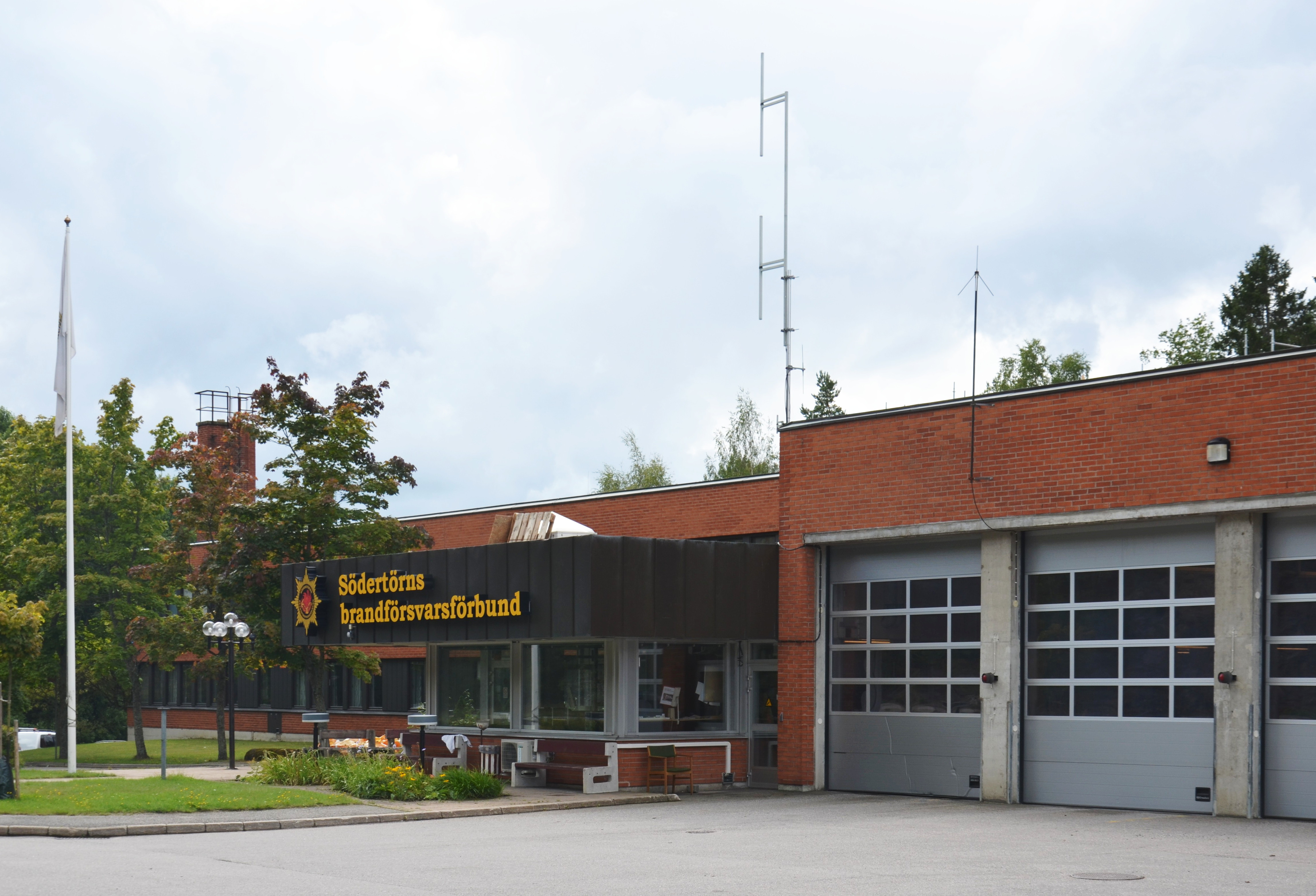 Huddinge Fire Station